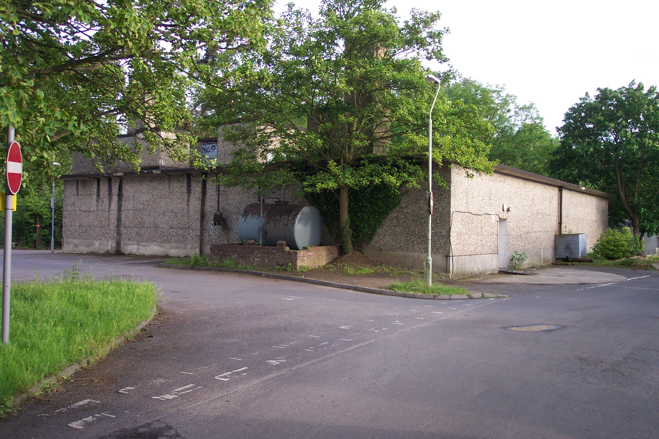 The former Region 6 War Room, on the Whiteknights Park campus of the University of Reading, England. This is the above ground portion of the war room, which would have housed the regional government for South Central England (Berkshire, Buckinghamshire, Dorset, Hampshire, Oxfordshire, and the Isle of Wight) in the event of a nuclear strike on Britain during the 1950s and possibly later. It was rendered obsolete by the development of the H-bomb, and replaced by a new Regional Seat of Government (RSG-6) at Warren Row near Maidenhead. After ceasing to be used for civil defence purposes, the war room was taken over by the University and modified as a secure storage facility for use by the University Library. For more information see the Wikipedia article Region 6 War Room.